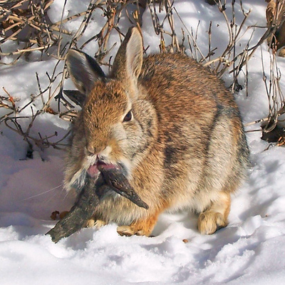 Rabbit with Shopes Papillomavirus